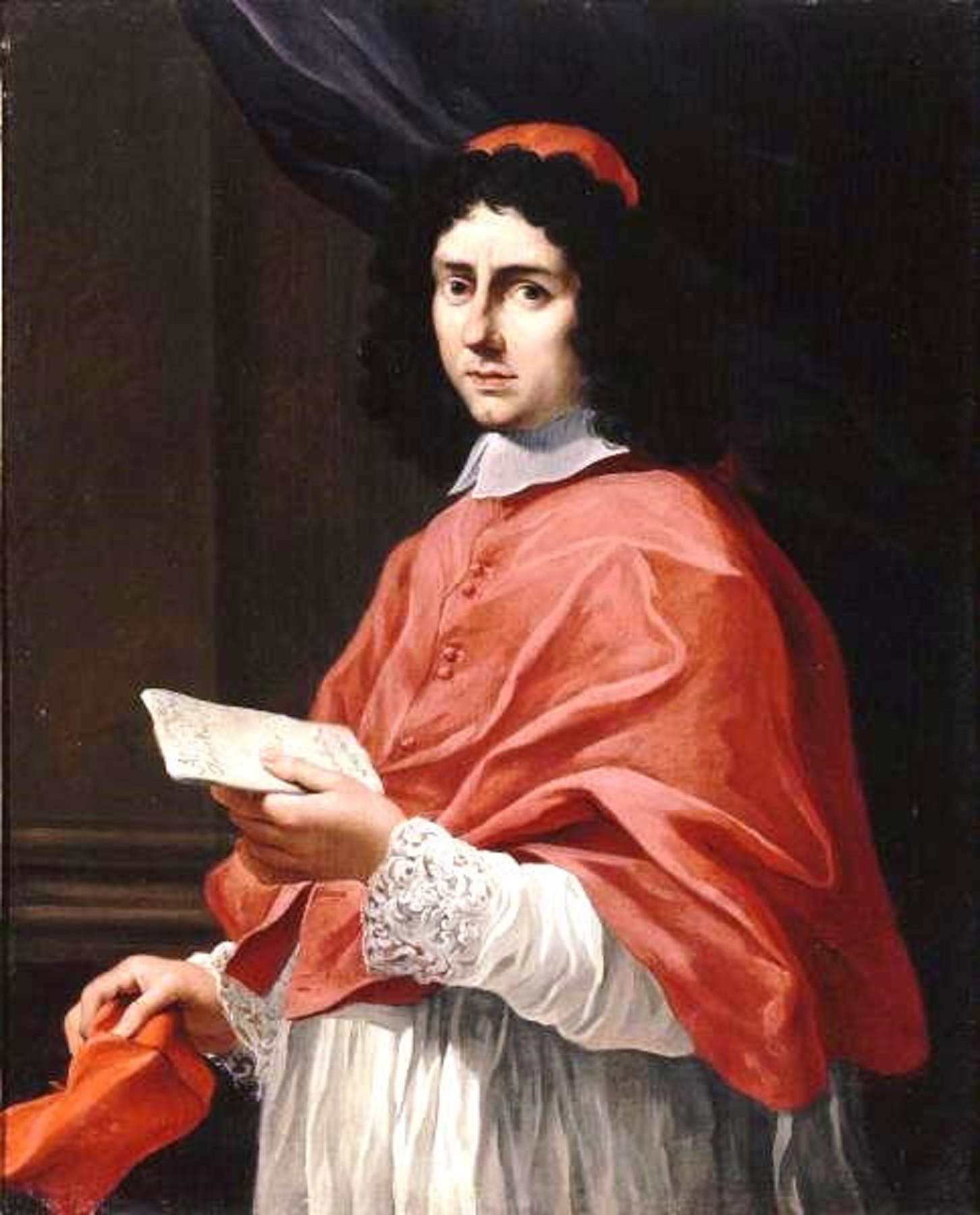 Portrait of Cardinal Felice Rospigliosi (d. 1688) by Ludovico Gimignani (d. 1697)